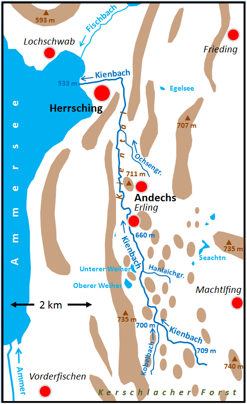 Course of the Kienbach creek